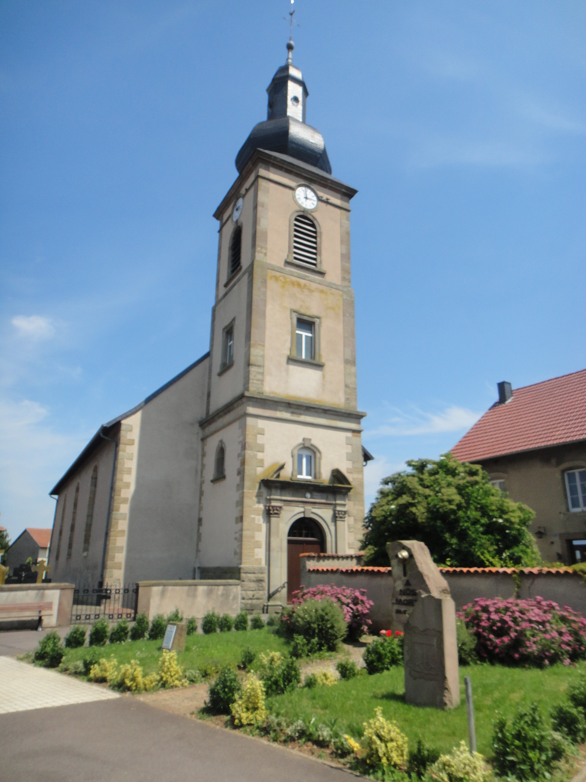 Church St Barthelemy in Léning (Lorraine, France)